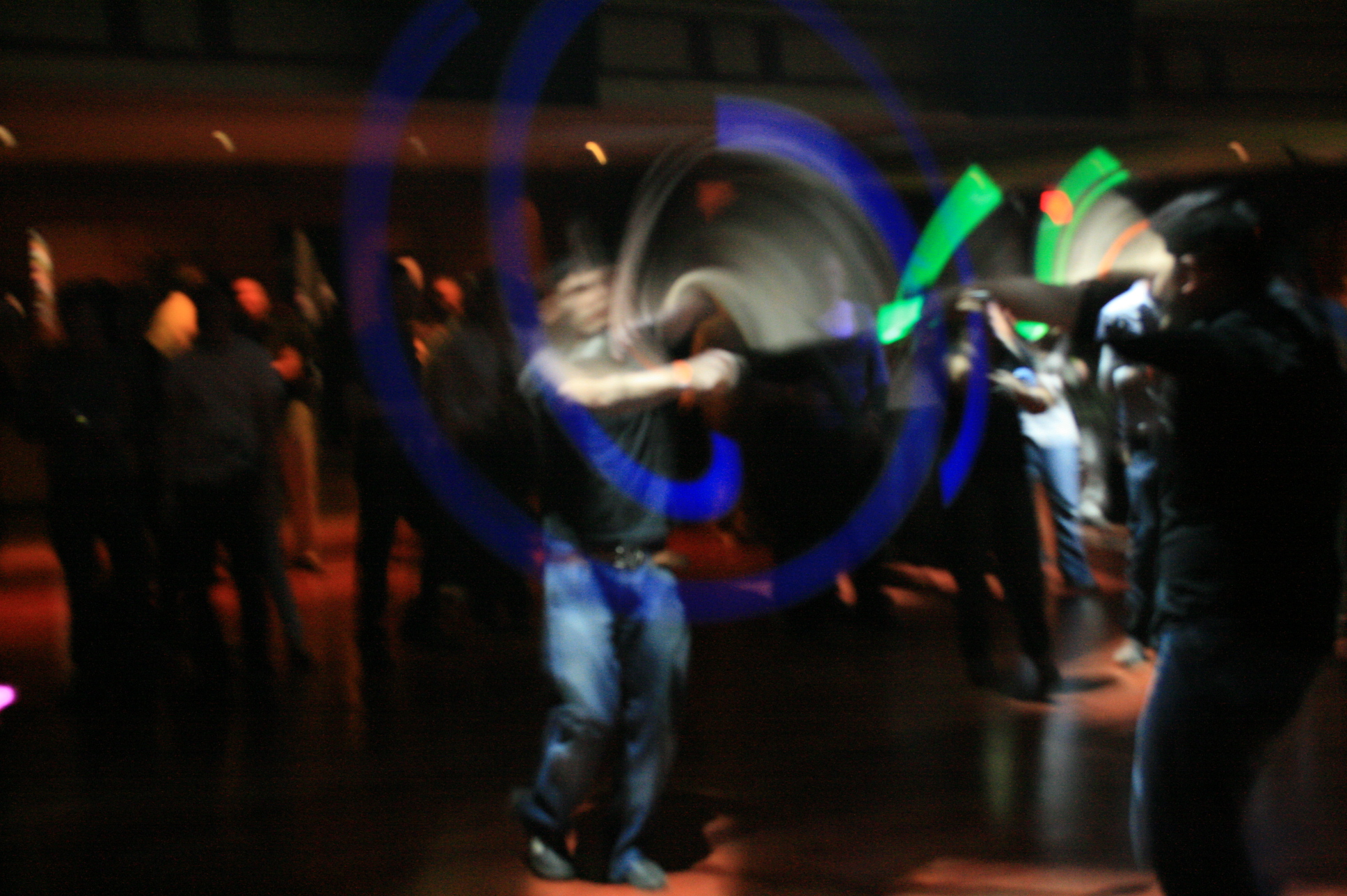 Glowsticking at a Paul van Dyk rave in Atlanta, Georgia.